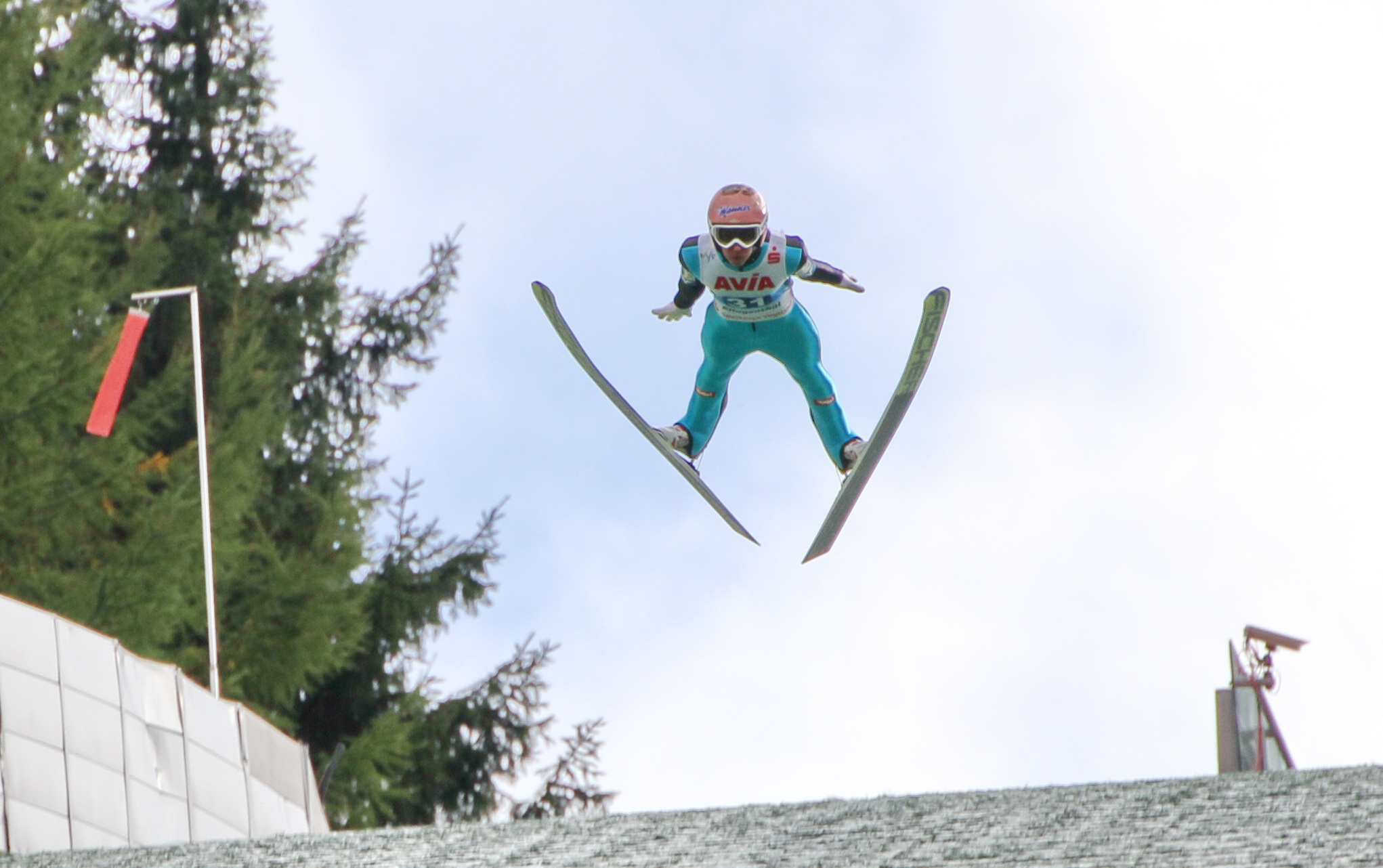 FIS Ski Jumping Summer Grand Prix Klingenthal 2017 on 2017-10-03 Stefan Kraft